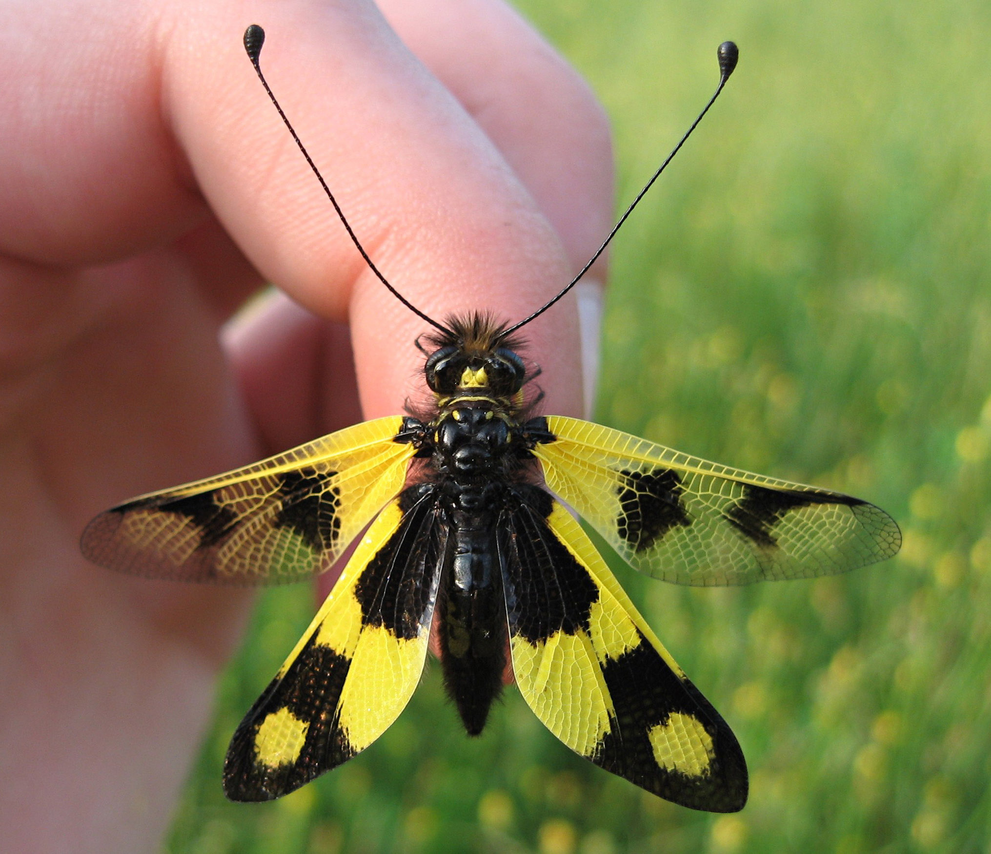 The owlfly Libelloides macaronius, family Ascalaphidae, from Istria/Croatia.